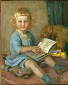 Child with Picturebook